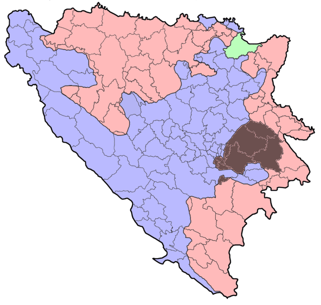 Municipalities in Bosnia and Herzegovina, Sarajevo-Romanija region (RS) highlighted